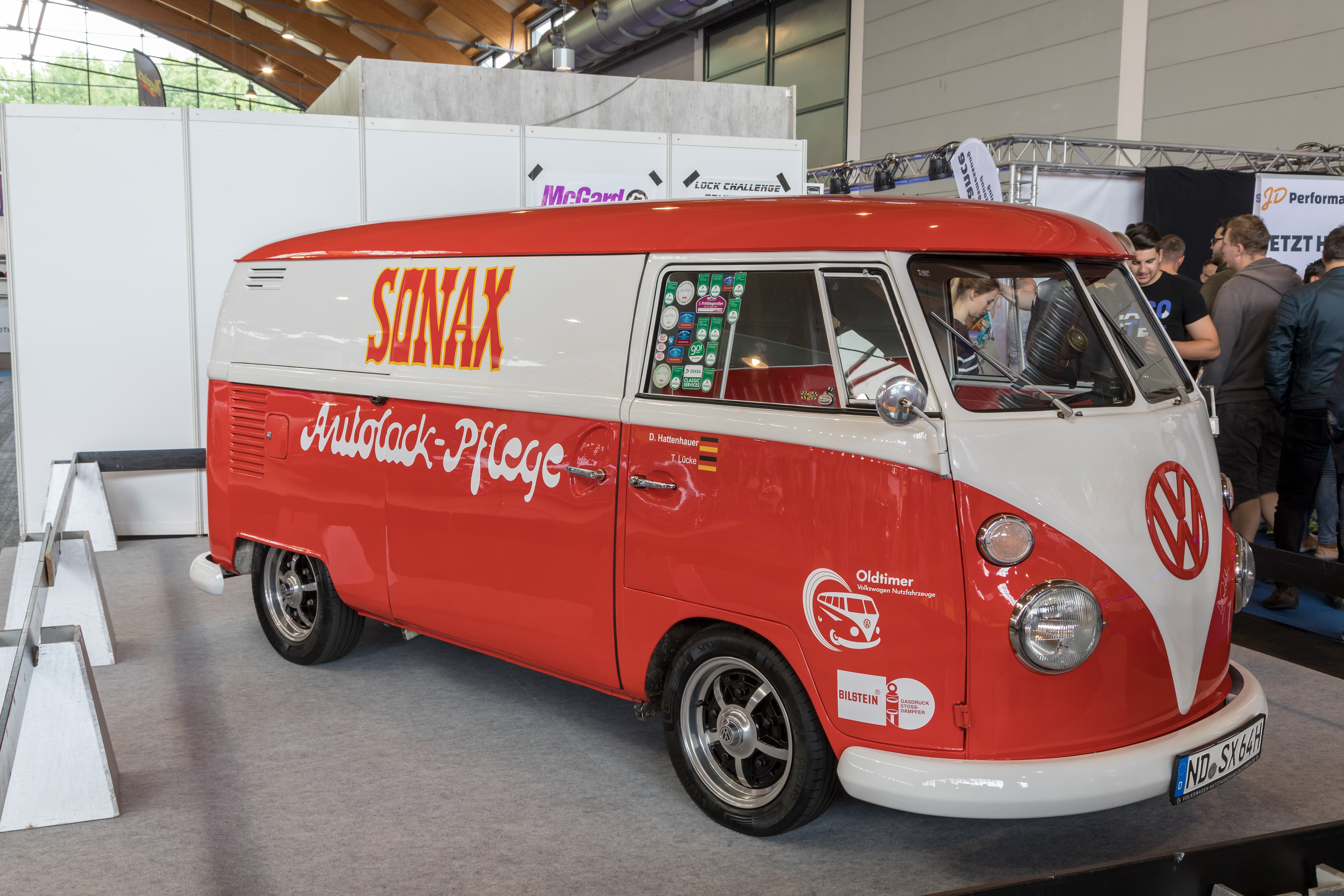 Tuning World Bodensee 2018